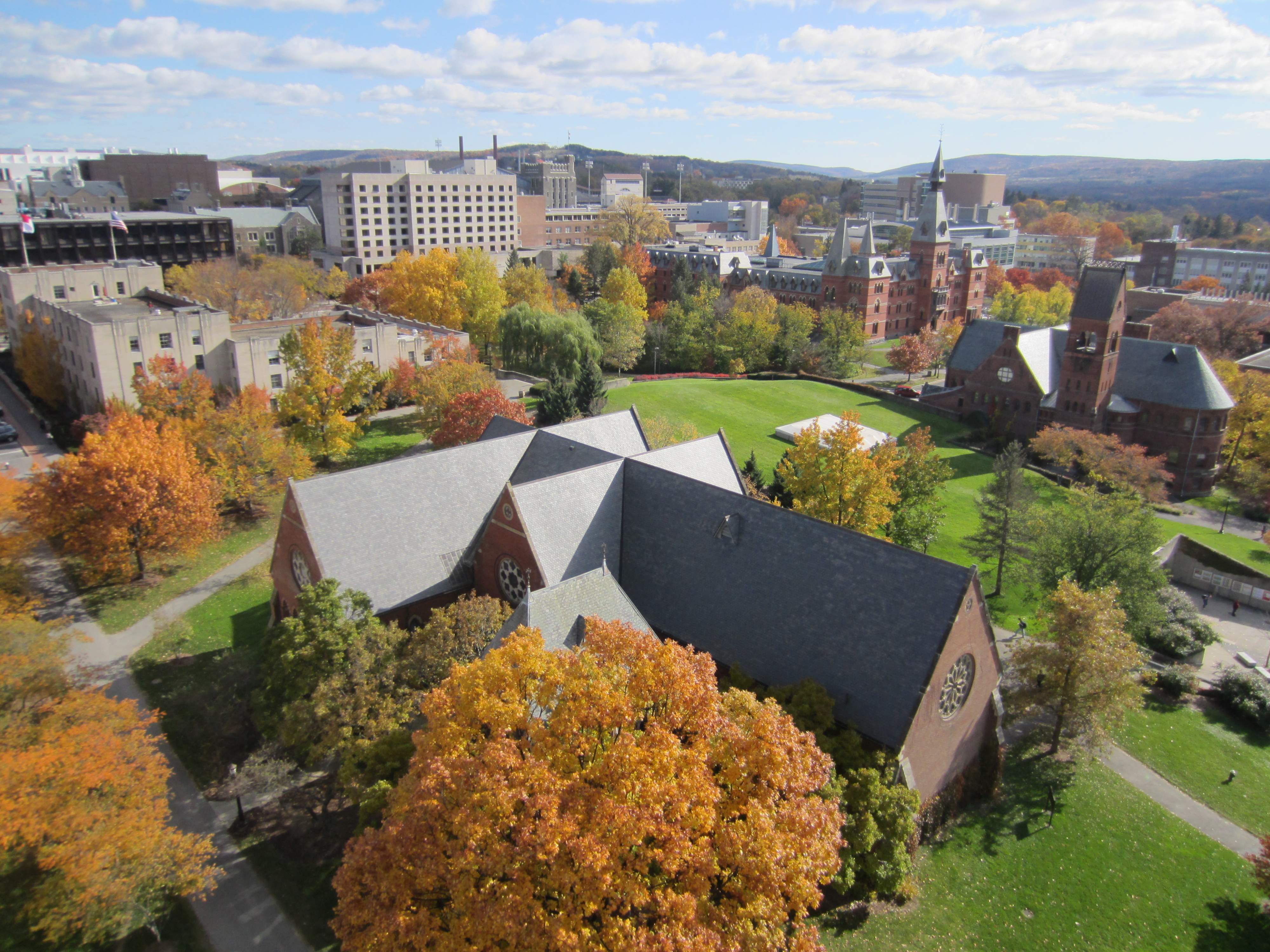 Cornell University, founded by Ezra Cornell, is an ivy league university located on the top of the East Hill of Ithaca, NY.